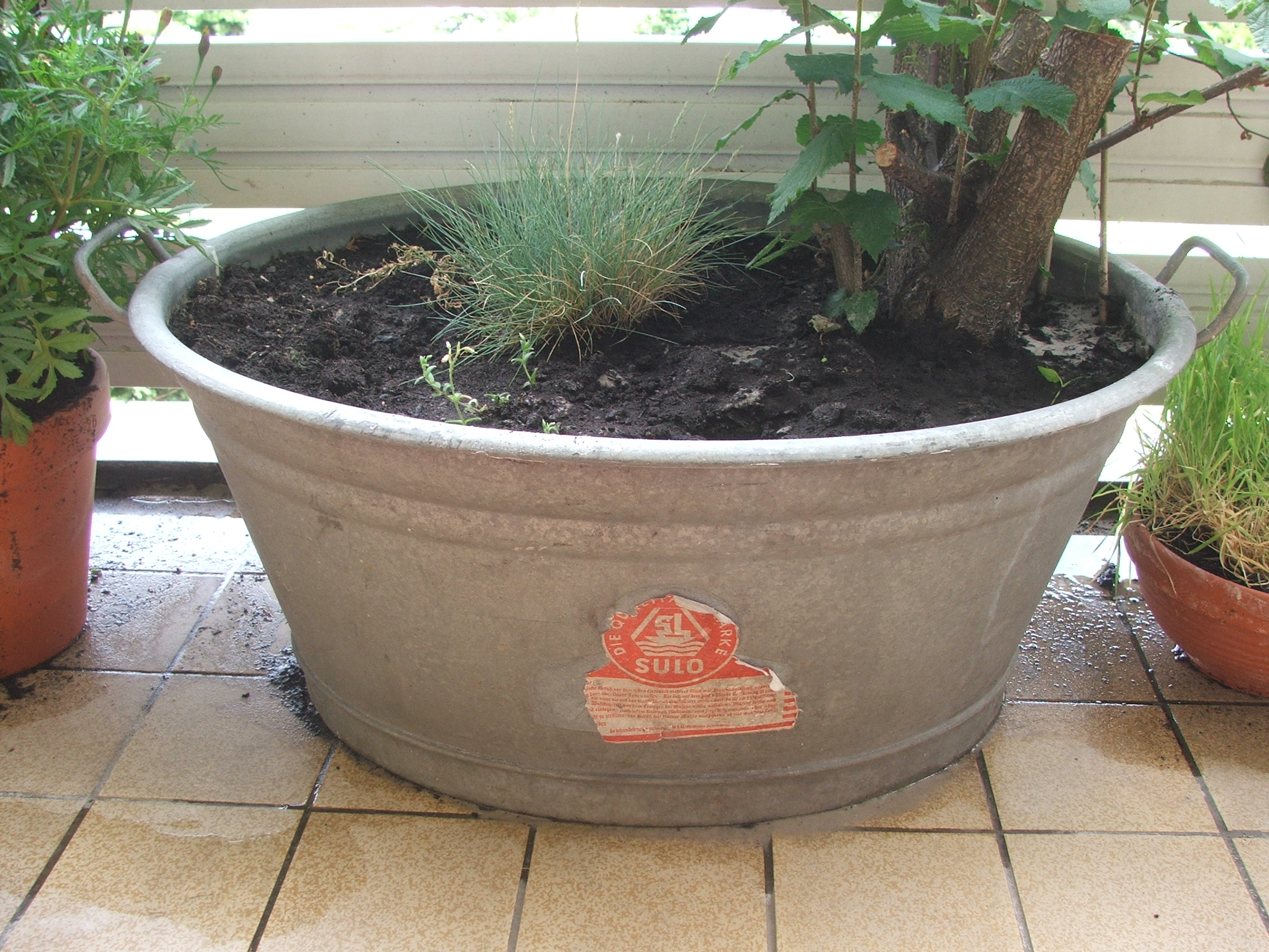 Tin bowl of SULO, a company from Herford, District of Herford, North Rhine-Westphalia, Germany.